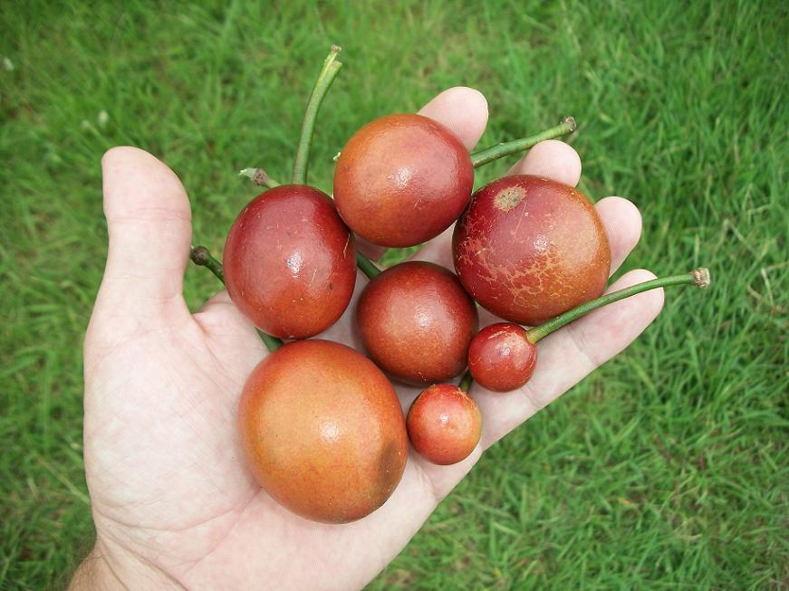 Ripe fruit of Capparis tomentosa from Athlone Park, Amanzimtoti, South Africa.